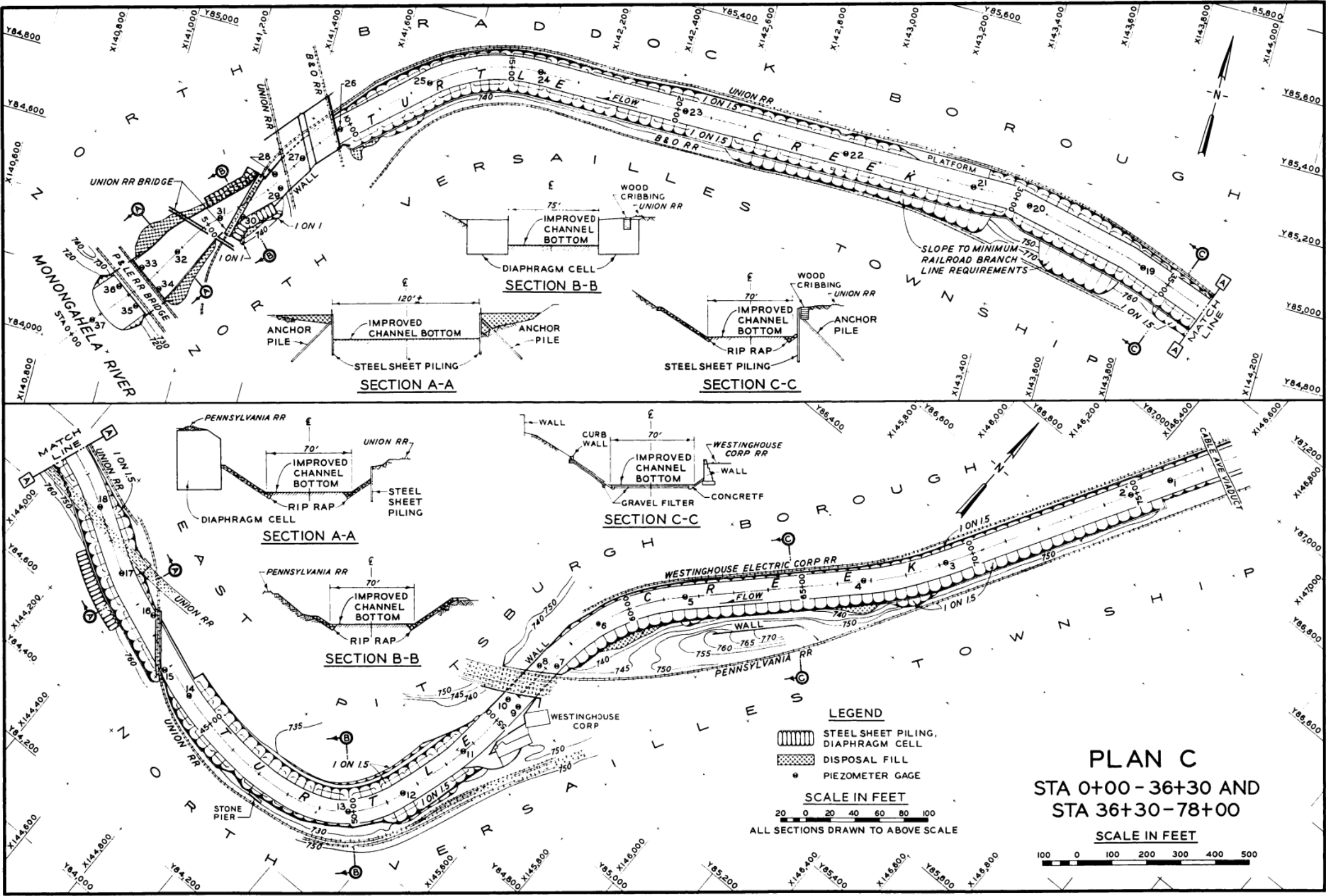 A drawing by the US Army Corps of Engineers illustrating some of the improvements made to the channel of Turtle Creek, east of Pittsburgh PA, as part of a flood control project in the 1960s